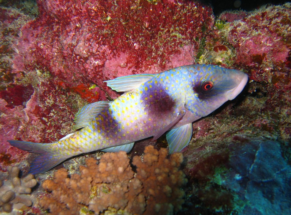 Double-bar Goatfish (Parupeneus bifasciatus). North Horn, Osprey Reef, Coral Sea